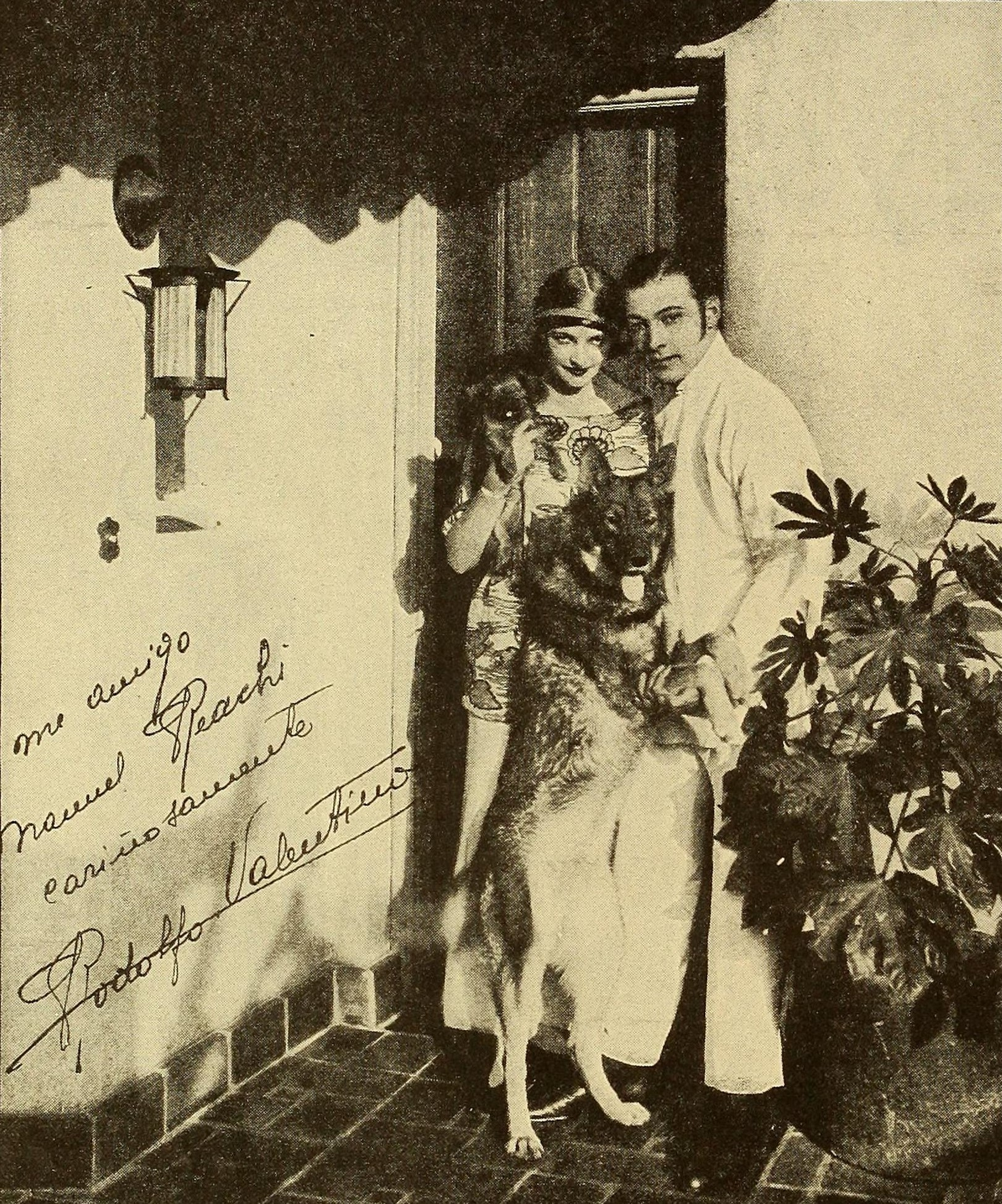 Published in The New Movie, Aug. 1930. According to the magazine, it was one of his favorite photos. It was taken shortly after their marriage at their Whitley Heights home.